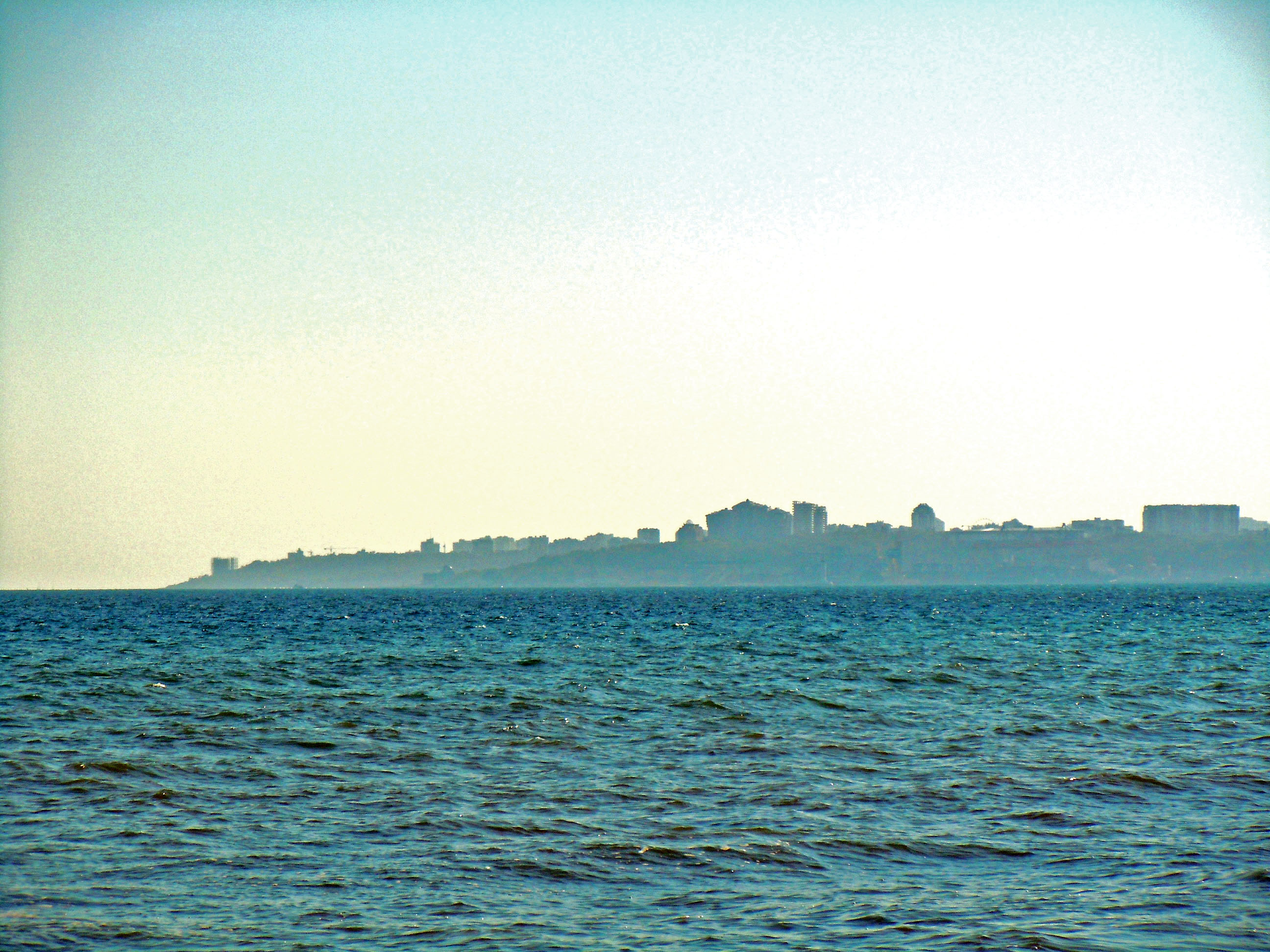 View to the Cape Langeron from Luzanivka